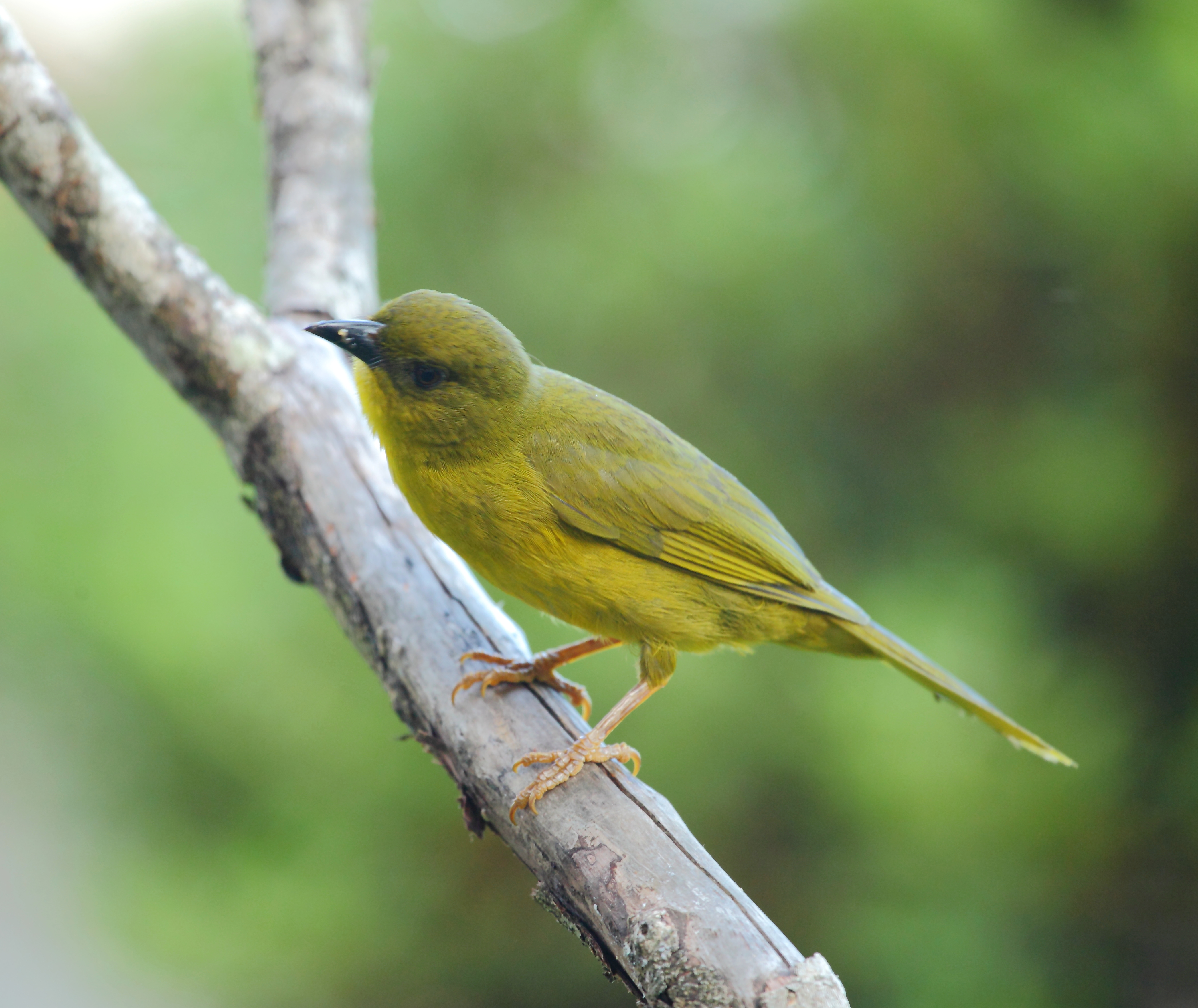 Olive-green Tanager at Itatiaia - SP - Brazil